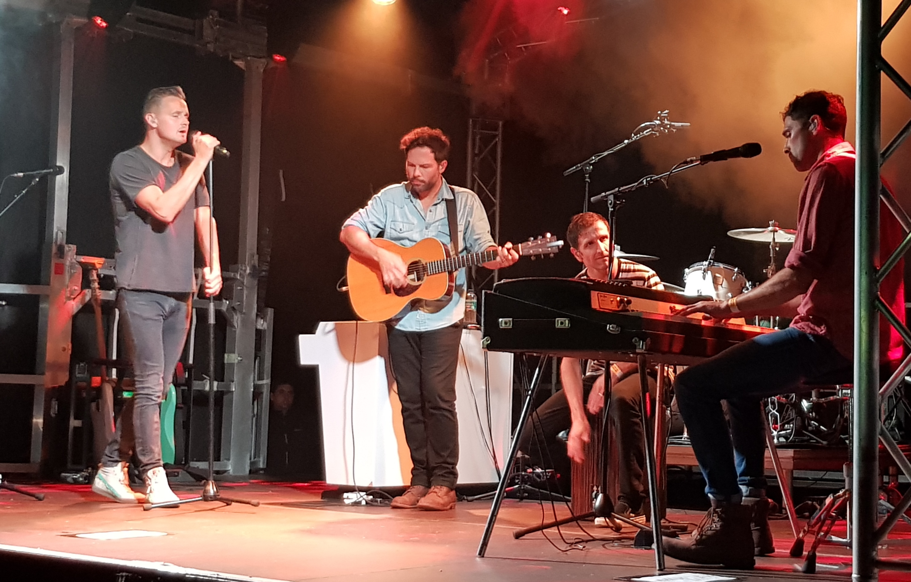 Keane (band) is playing in Battle Abbey on 11, August 2018